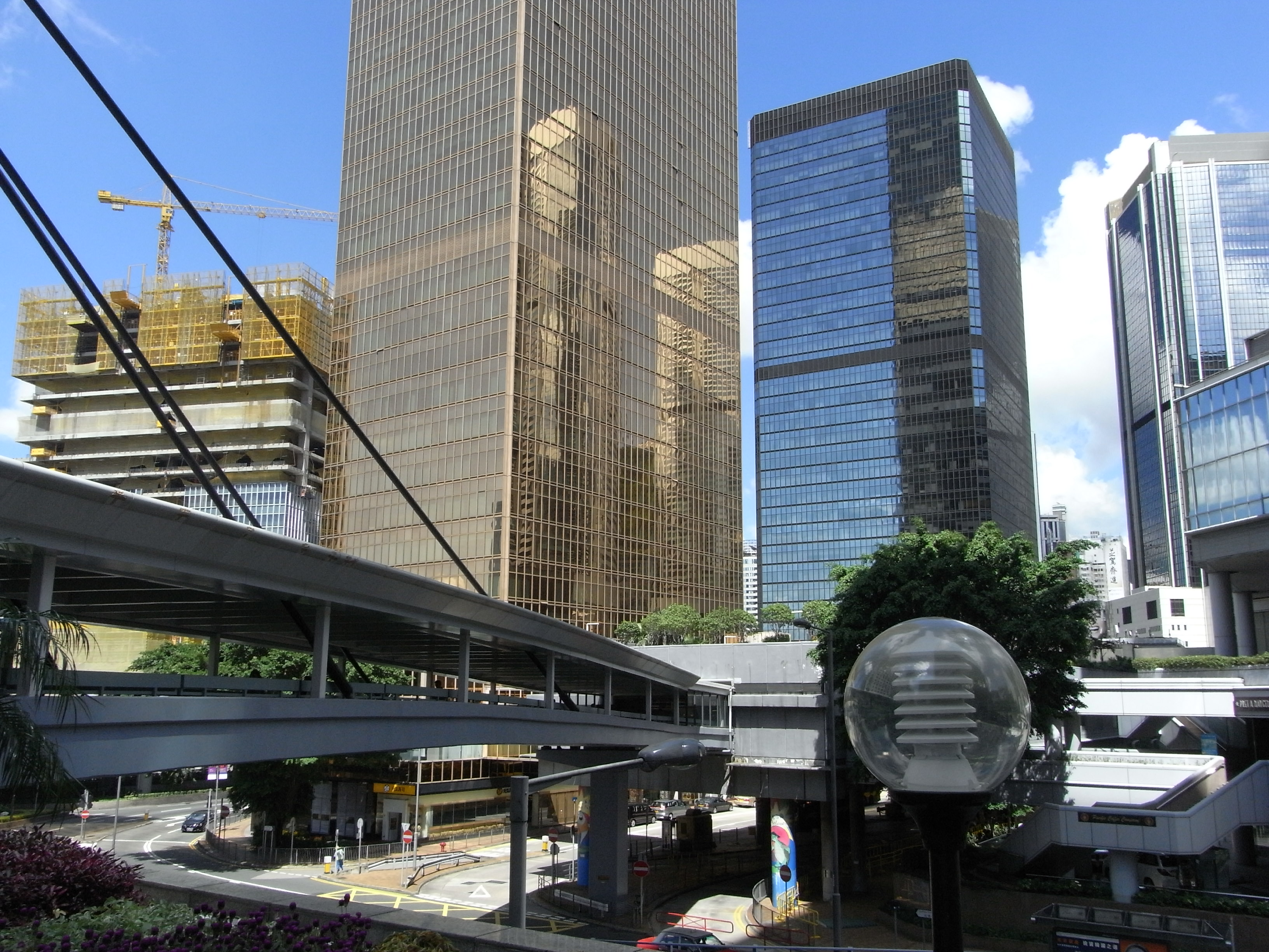 金鐘2010年7月